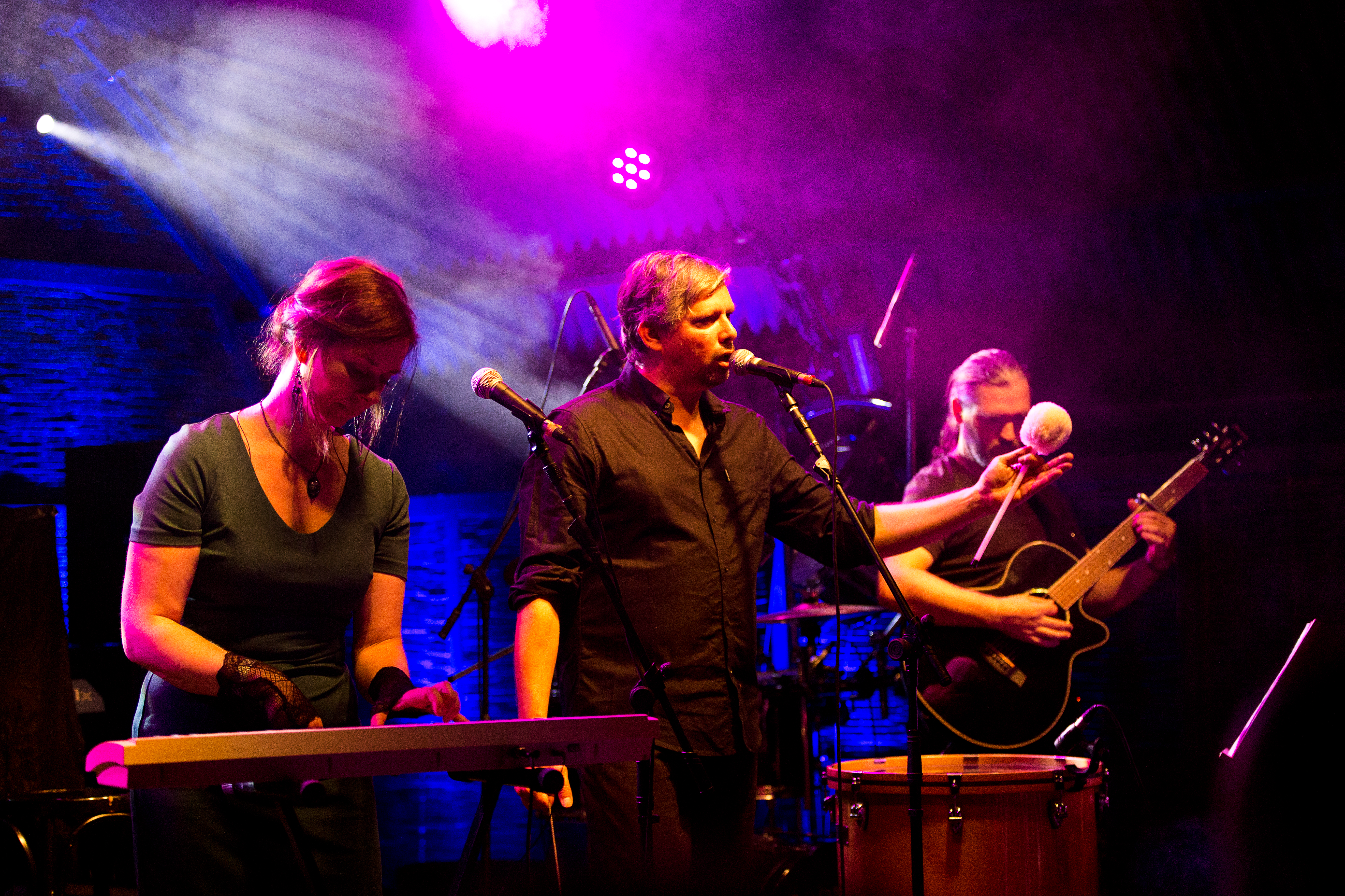 The German neoclassical dark wave band Hekate at the Nocturnal Culture Night 11 2016 in Deutzen/Germany.